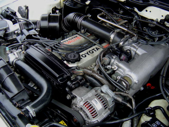 Toyota 7M-GE engine of Toyota Cressida (MX83)